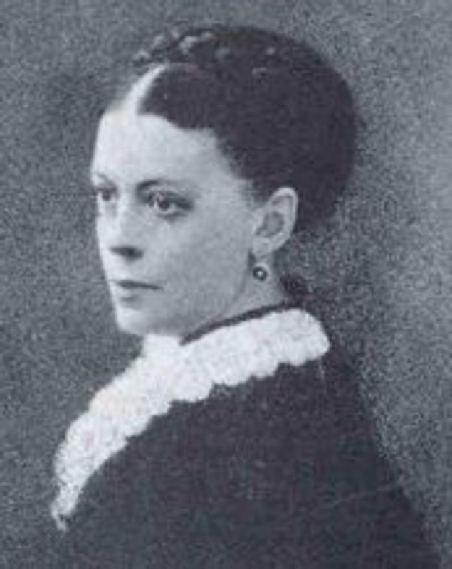 Sarah Chauncey Woolsey (January 29, 1835 – April 9, 1905) was an American children's author who wrote under the pen name Susan Coolidge.